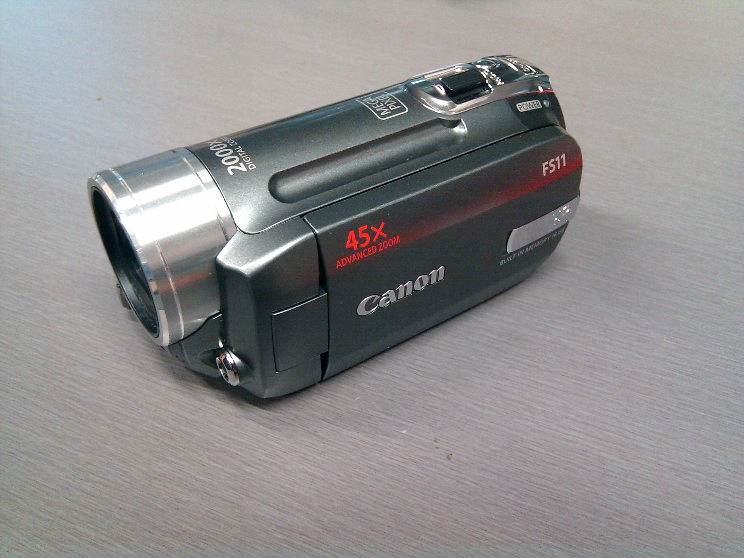 Canon video camera FS11.